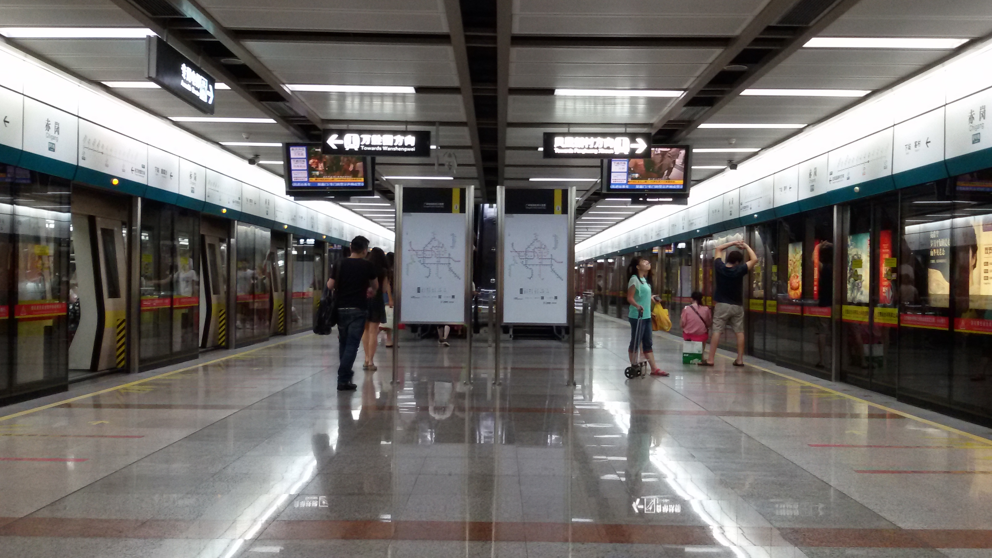 Station Platform for Chigang Station in Guangzhou Metro 粵語: 廣州地鐵，赤崗站嘅月台。